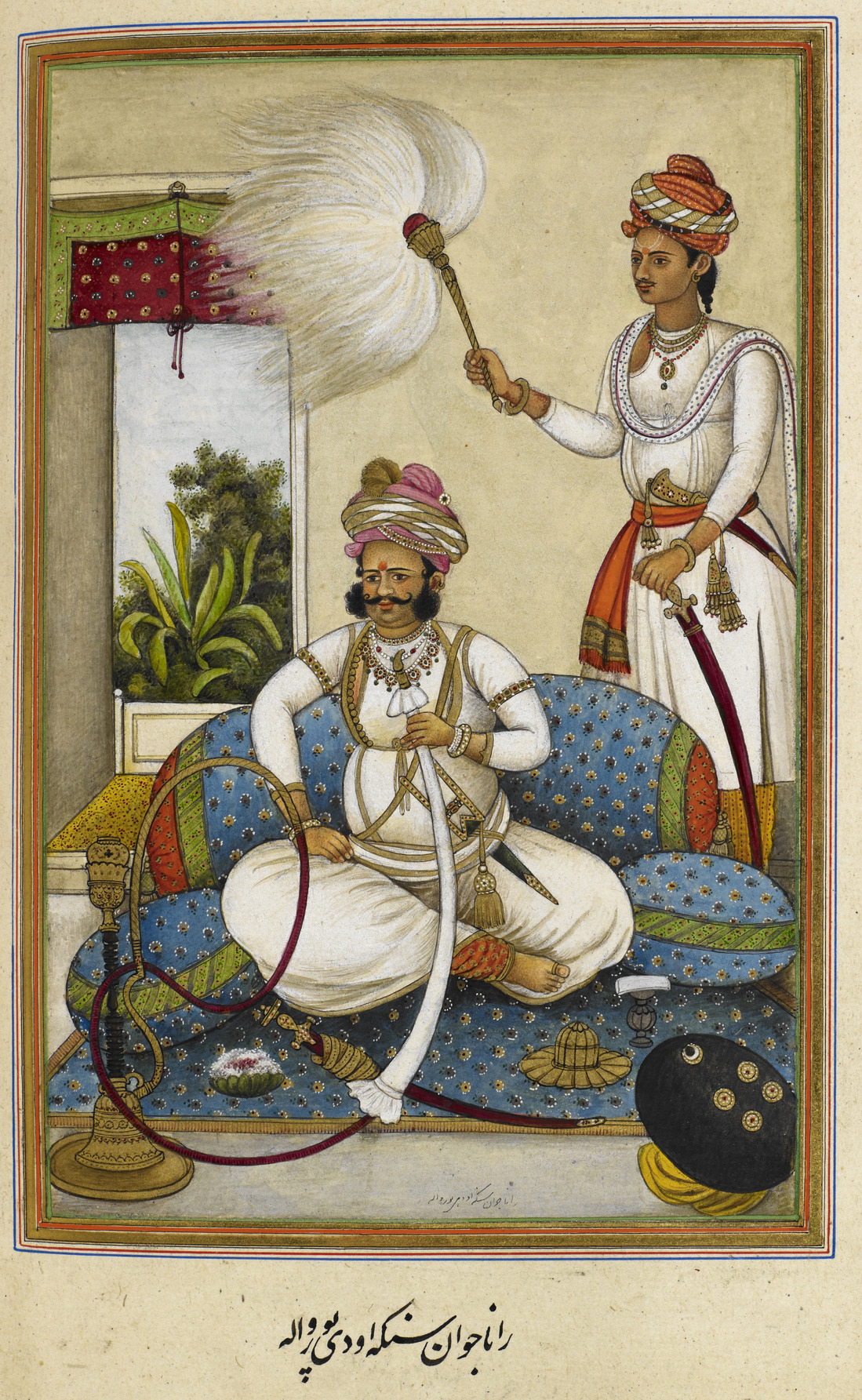 Portrait of Maharana Javan Singh of Udaipur (r.1828-1838), smoking a hookah. A servant stands behind him holding a fan